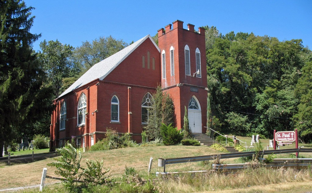 Registered Historic Places in Stark County, Ohio. St. Paul's Reformed Church, 9669 Erie Ave SW, Navarre, Ohio, USA. Photographed 2008-08-26 from east side of Erie Ave SW near the intersection of Crestline St. SE.